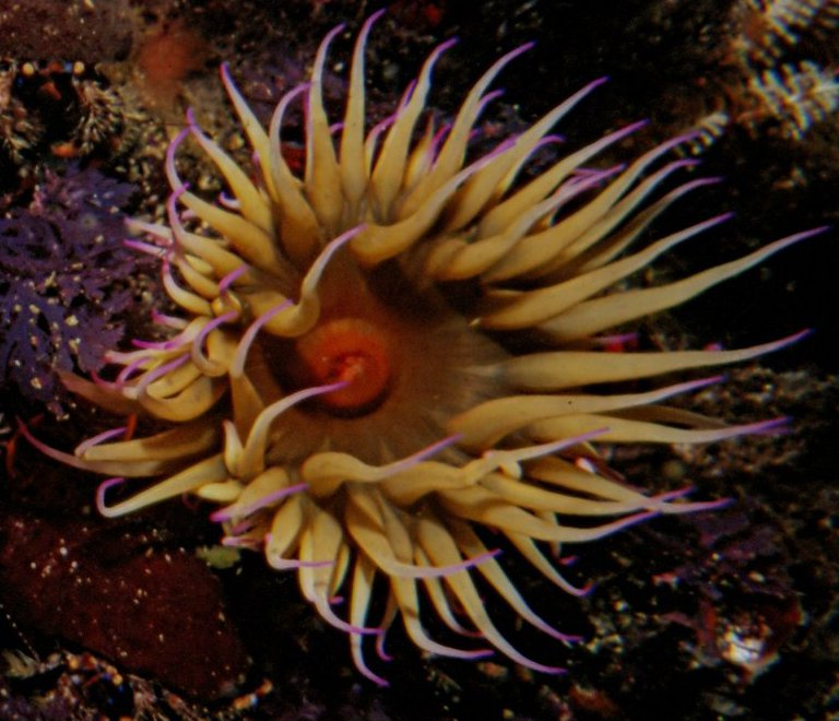 A photograph of the false plum anemone, Pseudactinia flagellifera, taken in about 20m of water in False Bay South Africa using a Nikonos V camera